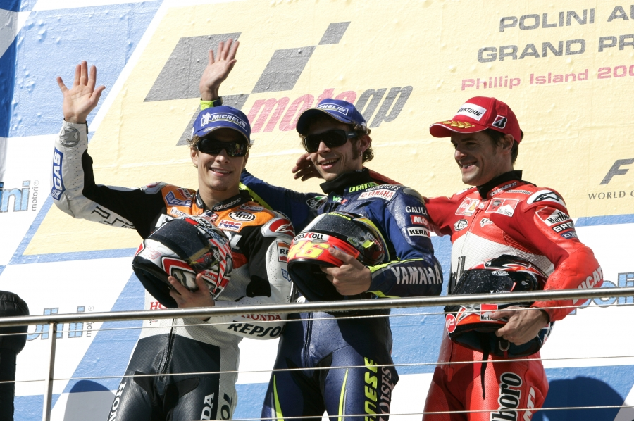 Nicky Hayden, Valentino Rossi and Carlos Checa, celebrating on the podium after finishing in second, first and third position at the 2005 Australian Grand Prix.